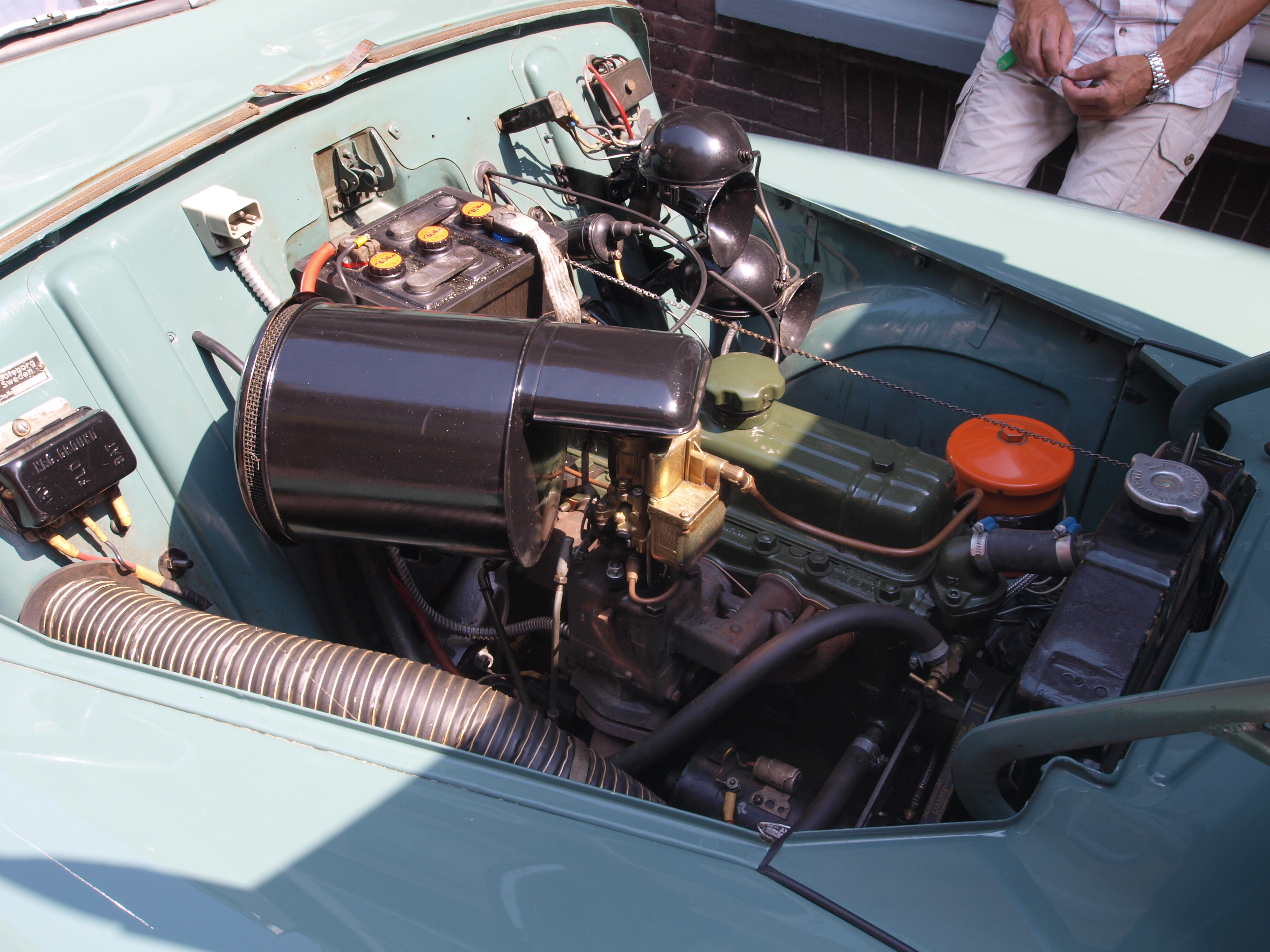 B4B engine of a 1951 Volvo PV444 CS, photographed at Kampen, in the Netherlands.